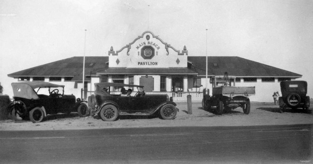 Main Beach Pavilion at Southport, 1935. Several early model motor vehicles and a utility parked outside the Pavilion at Southport.